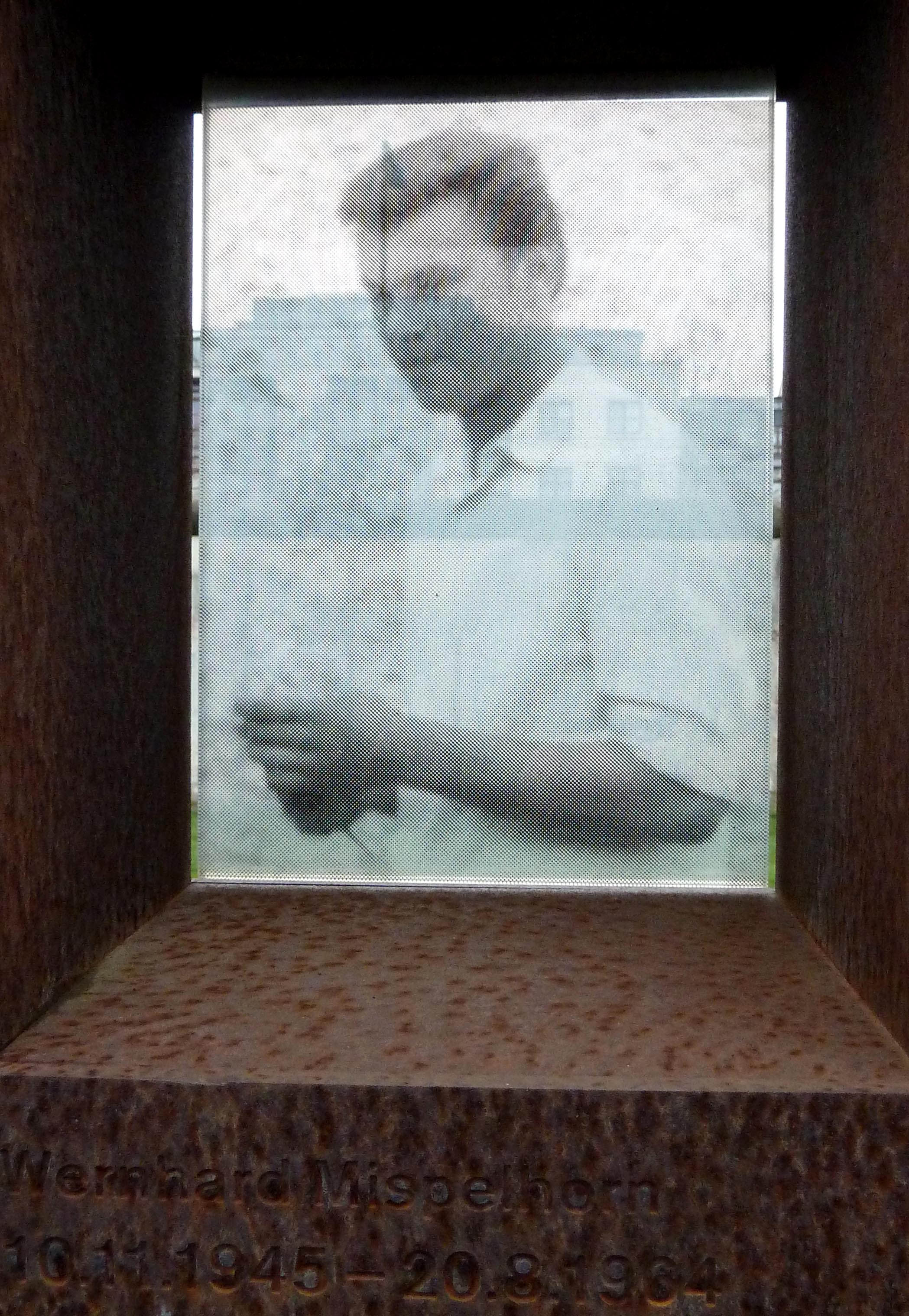 Wernhard Mispelhorn at the Wall of Rememberance, Bernauer Straße, Berlin